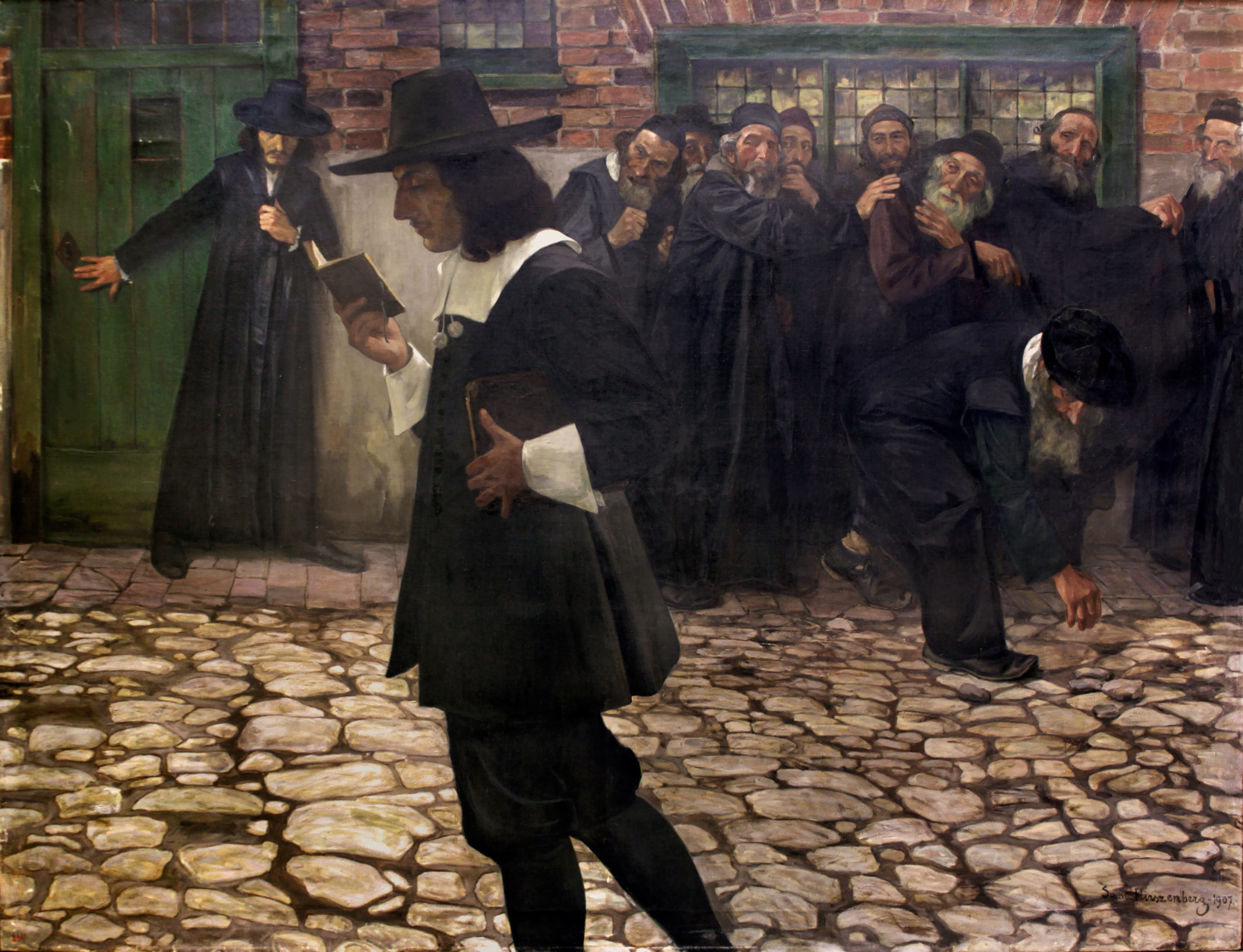 Excommunicated Spinoza, 1907 painting by Samuel Hirszenberg